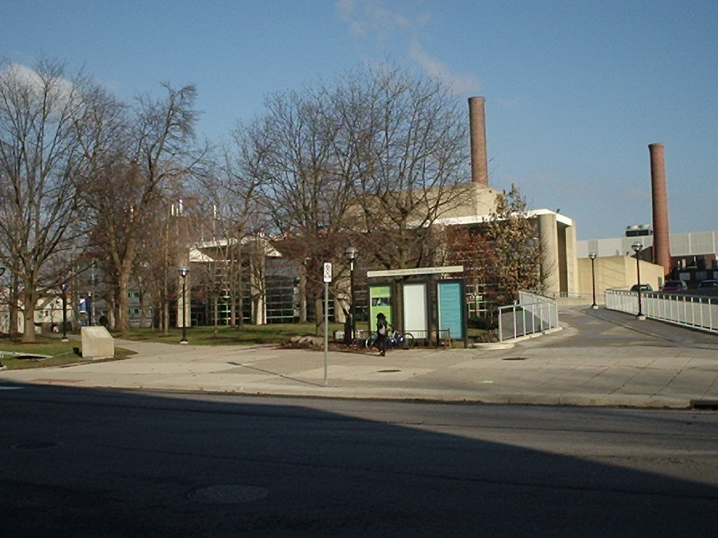 University of Michigan Power Center for the Performing Arts. In the background are the Biomedical Science Building (left) and the smoke stacks of the Central Power Plant. Taken January 8, 2006.